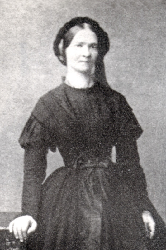 Narcyza Żmichowska, Polish writer